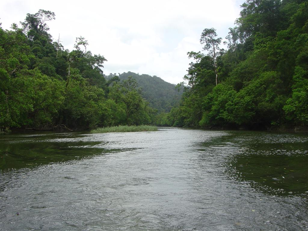 A river into Lampis Island